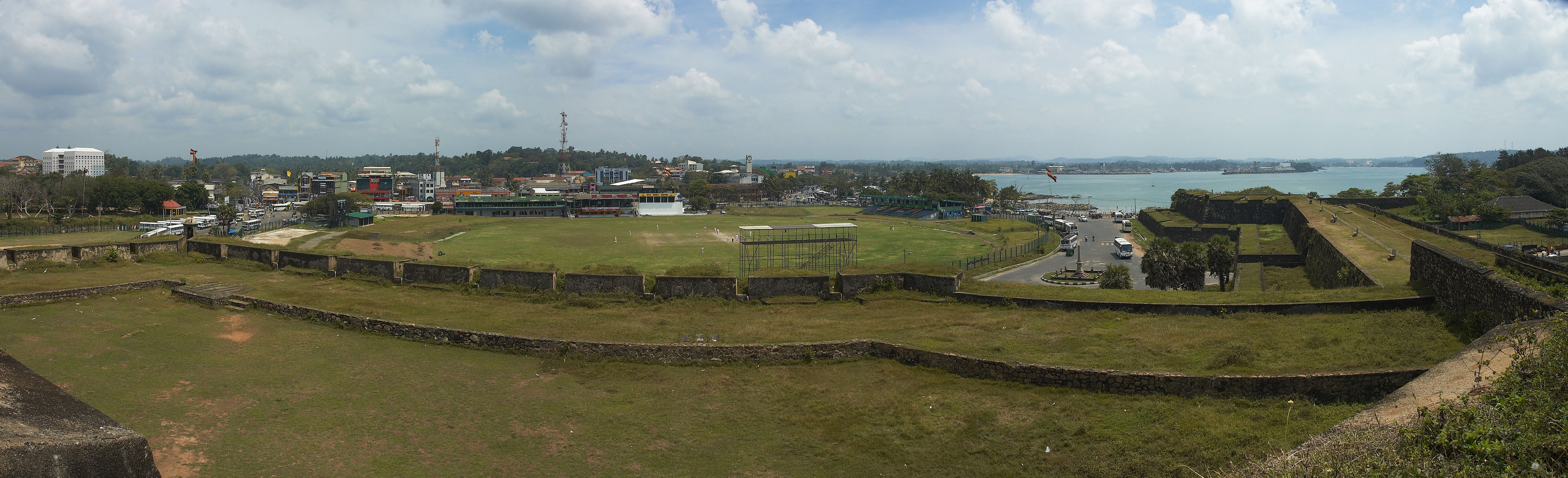 View from the Dutch Fort in Galle, Sri Lanka at the cricket ground still damaged from the tsunami 14 months ago. Looking direction East. - Google Maps - Google Earth